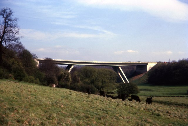 Wentbridge Viaduct Wentbridge Viaduct is one of the finest bridges built in Yorkshire, if not the UK in the 20th Century. It was designed by F.A.(Joe) Sims of the West Riding County Council and completed in 1961. This photograph was taken soon after in June 1963. The total span is 450ft between abutments, which themselves are hollow and truly enormous inside. Having carried out the first Principal Inspection of the bridge in the 1980s, I discovered that the prestressing cables, external to the internal webs of the cellular box deck were at risk of corrosion from road de-icing salt. I introduced measures to remove the risk and protect the cables. More information about the bridge is available on